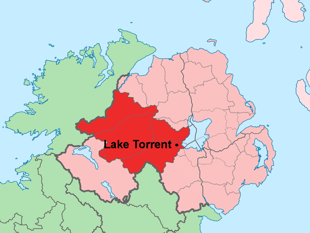 Location map of Lake Torrent within County Tyrone shown in context of Northern Ireland and the International border with Southern Ireland/Eire